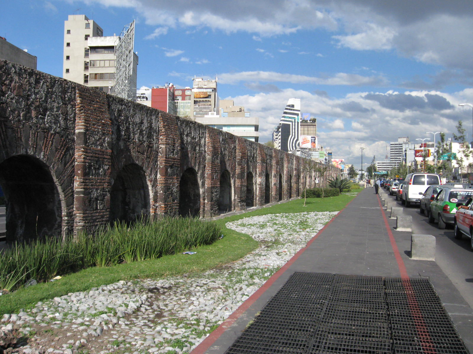 View of the the remains of the colonial Chapultepec aqueduct on Chapultepec Avenue between Metro stations Sevilla and Insurgentes in Mexico City